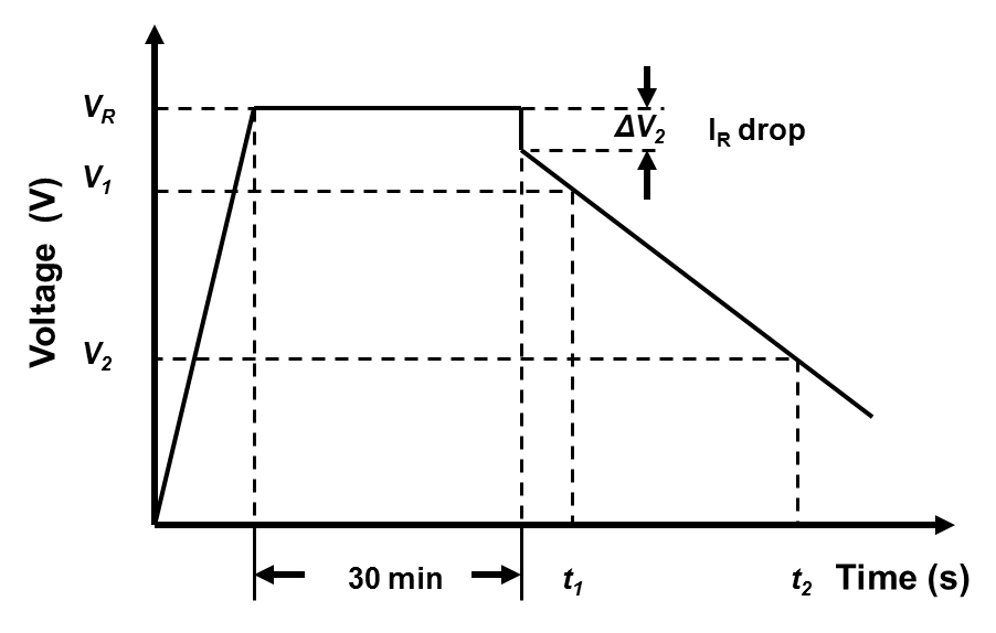 Supercapacitors capacitance measuring procedere